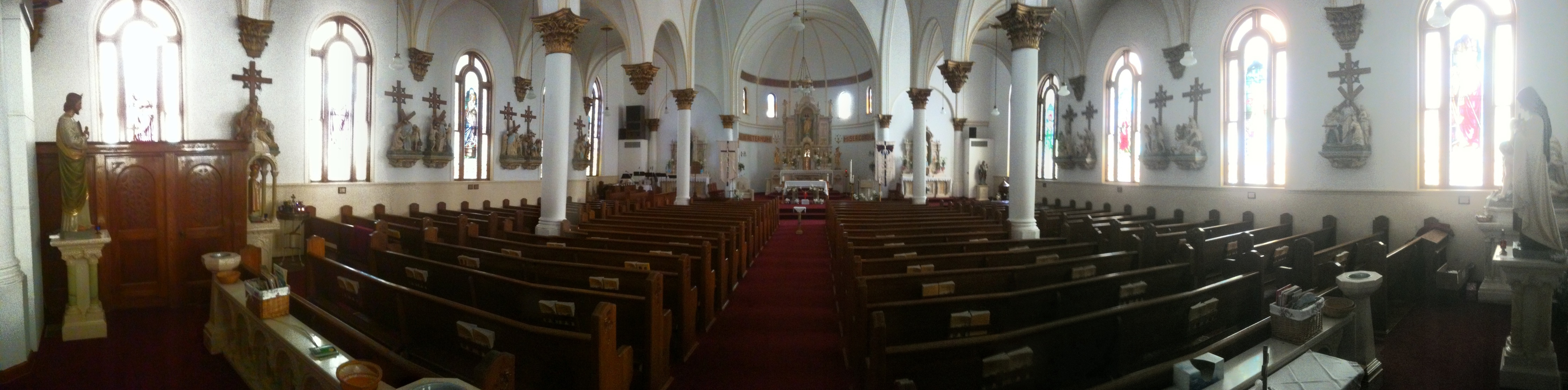 St. Anthony's Catholic Church